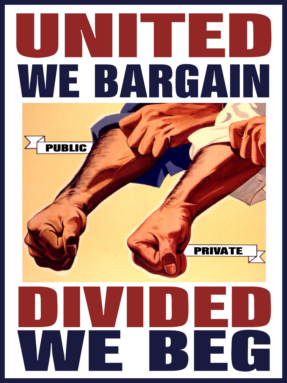 Worker protest poster with the slogan "United We Bargain, Divided We Beg". The union poster was made in 2011 by DonkeyHotey.